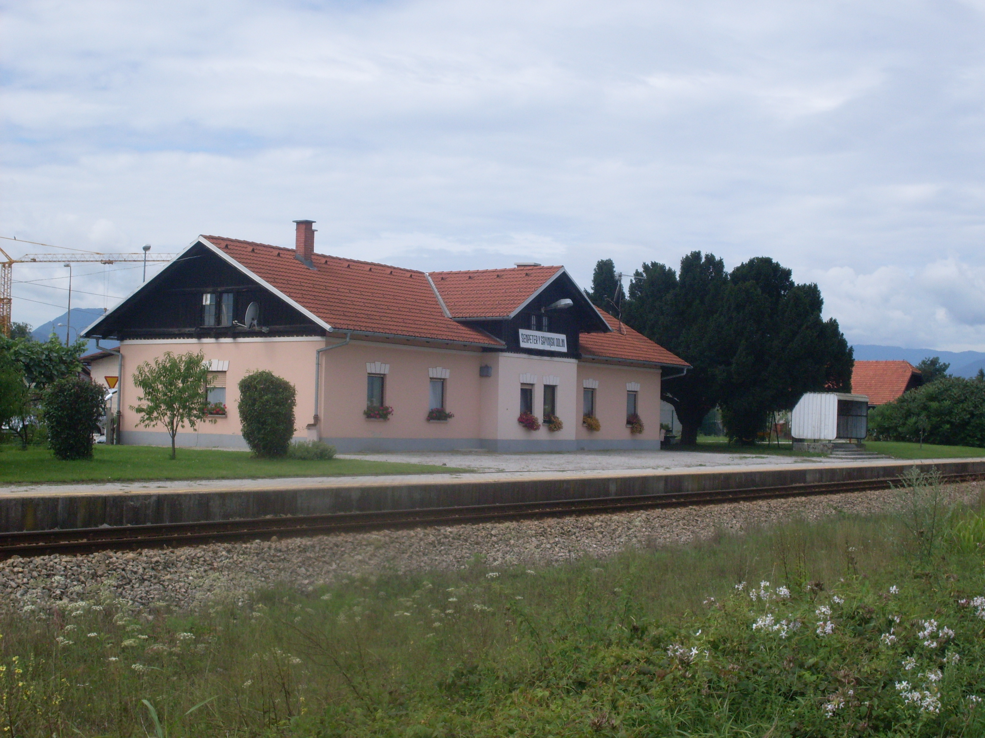 Railway halt Šempeter v Savinjski dolini or shorter Šempeter